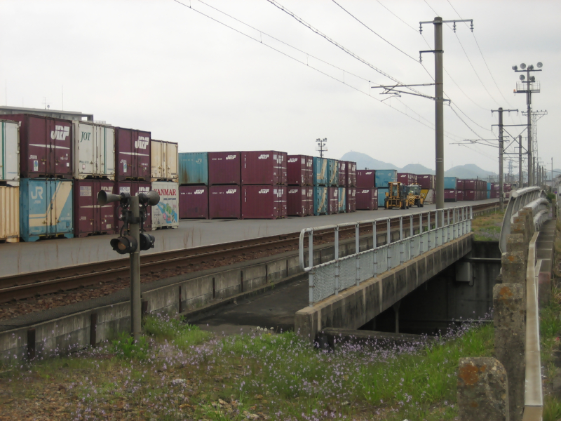 Gifu Freight Terminal platform